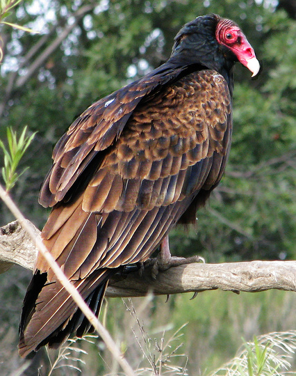 Cathartes_aura - Turkey Vulture